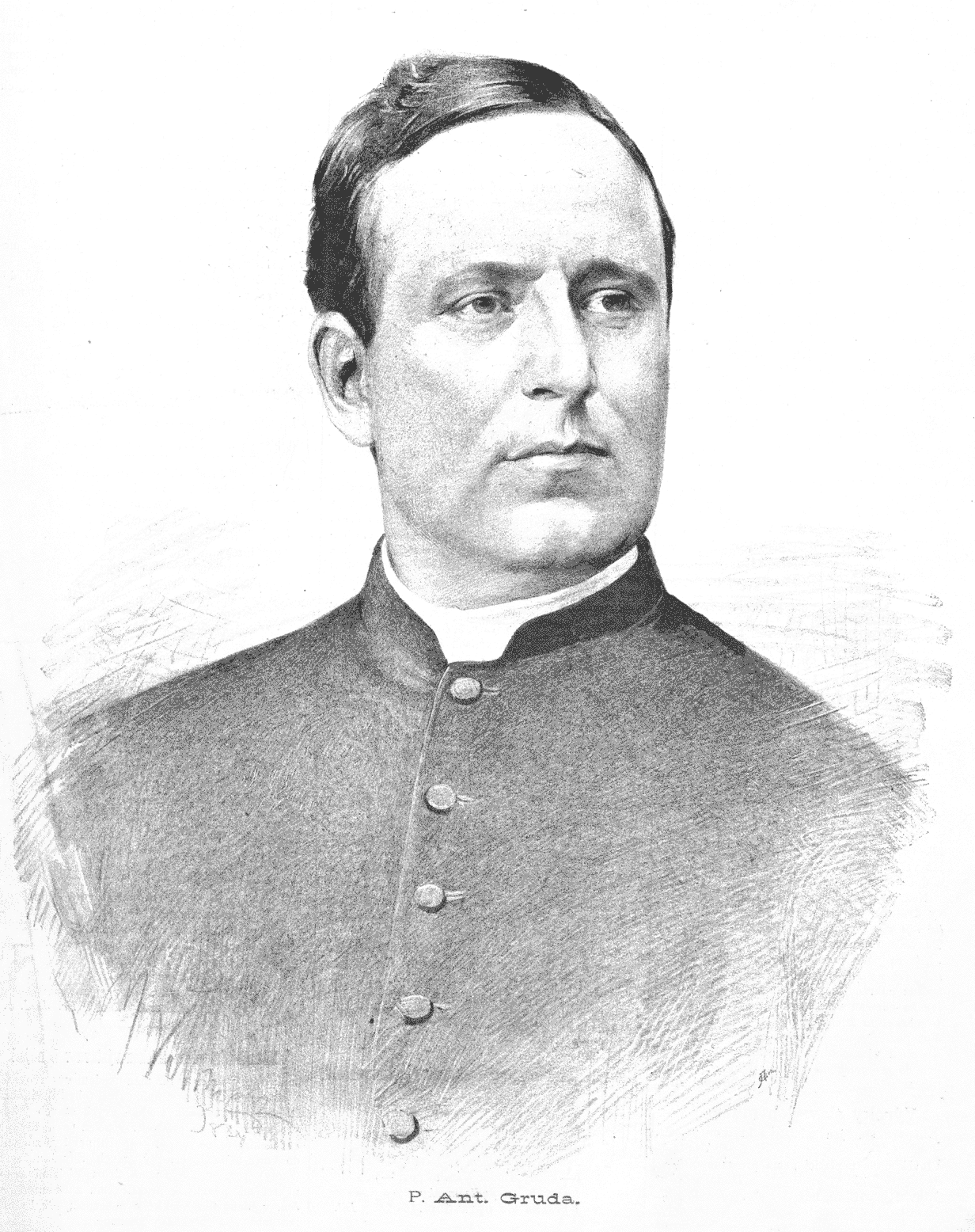 Portrait of Antonín Gruda (1844-1903), a patriotic priest and lawyer in Austrian Silesia.